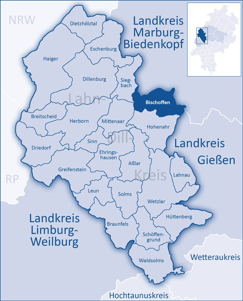 The map shows a district in the area of Lahn-Dill-Kreis